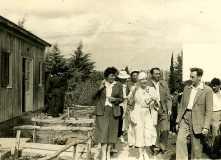 Righteous Among the Nations, Her Majesty Queen Elisabeth of Belgium, visiting Kibbutz Lohamei HaGeta'ot (Ghetto Fighters), Israel (1959)